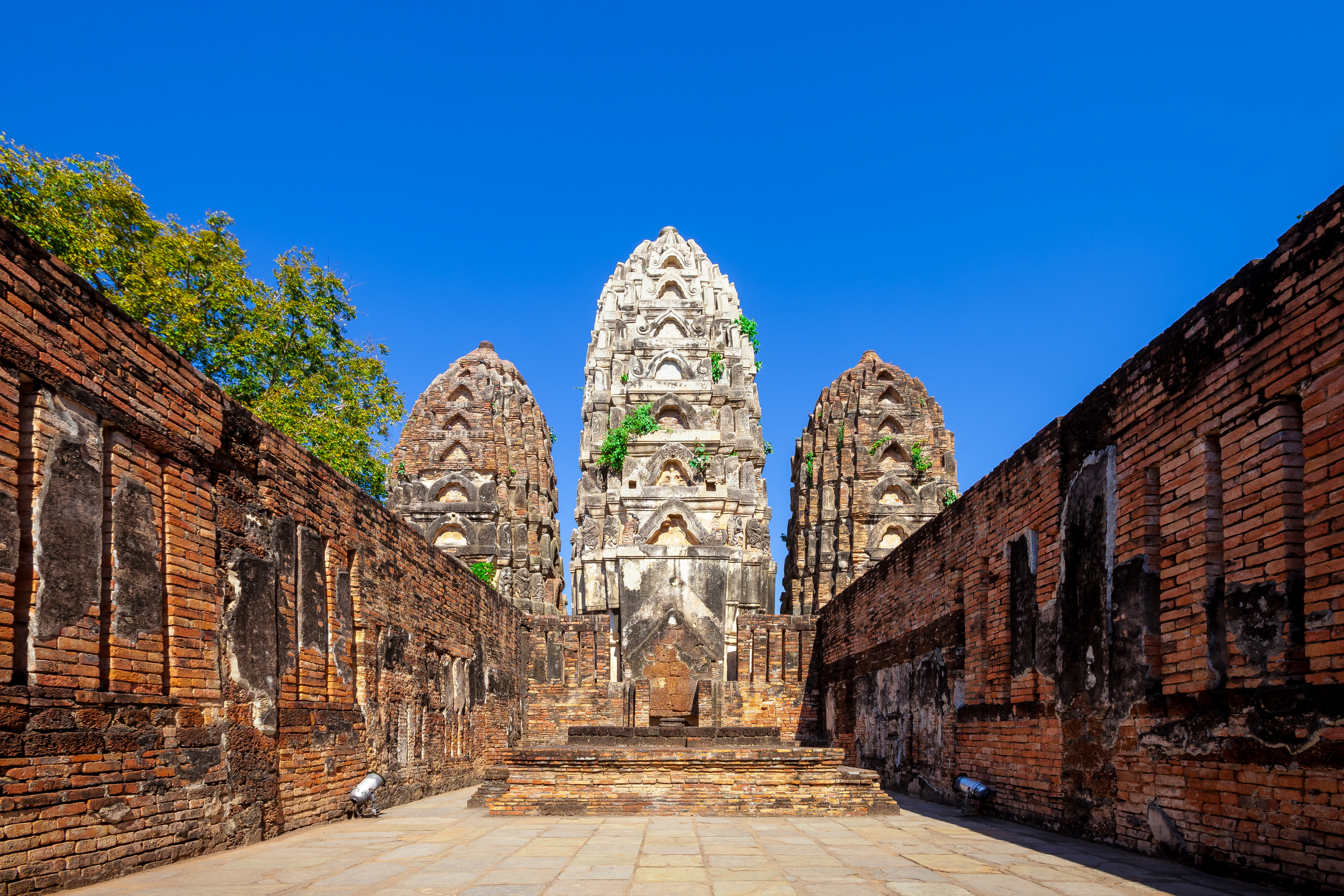 Wat Sri Sawai, Mueang Sukhothai District, Sukhothai Province, northern Thailand.